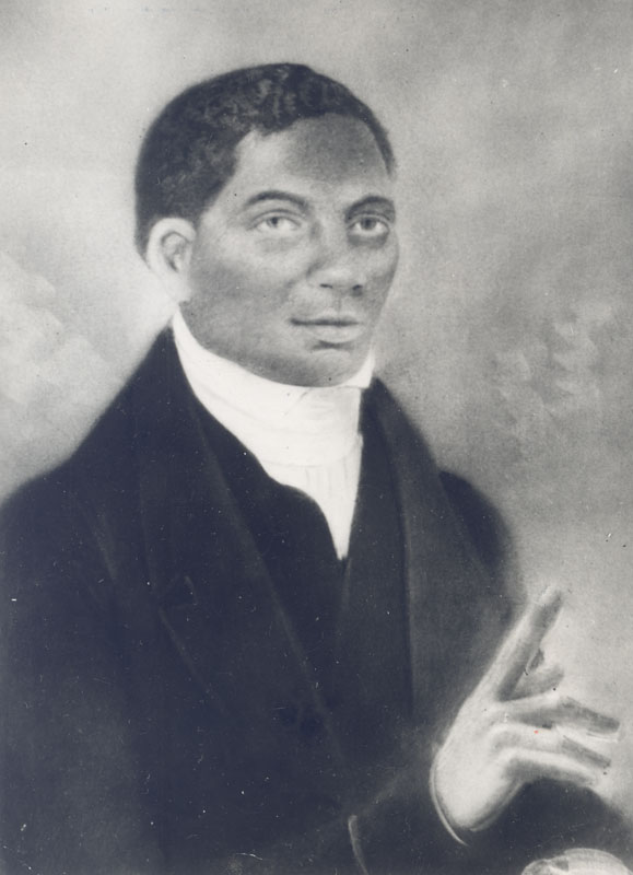 John Gloucester, pastor of the First African Presbyterian Church, Philadelphia, 1811-1821